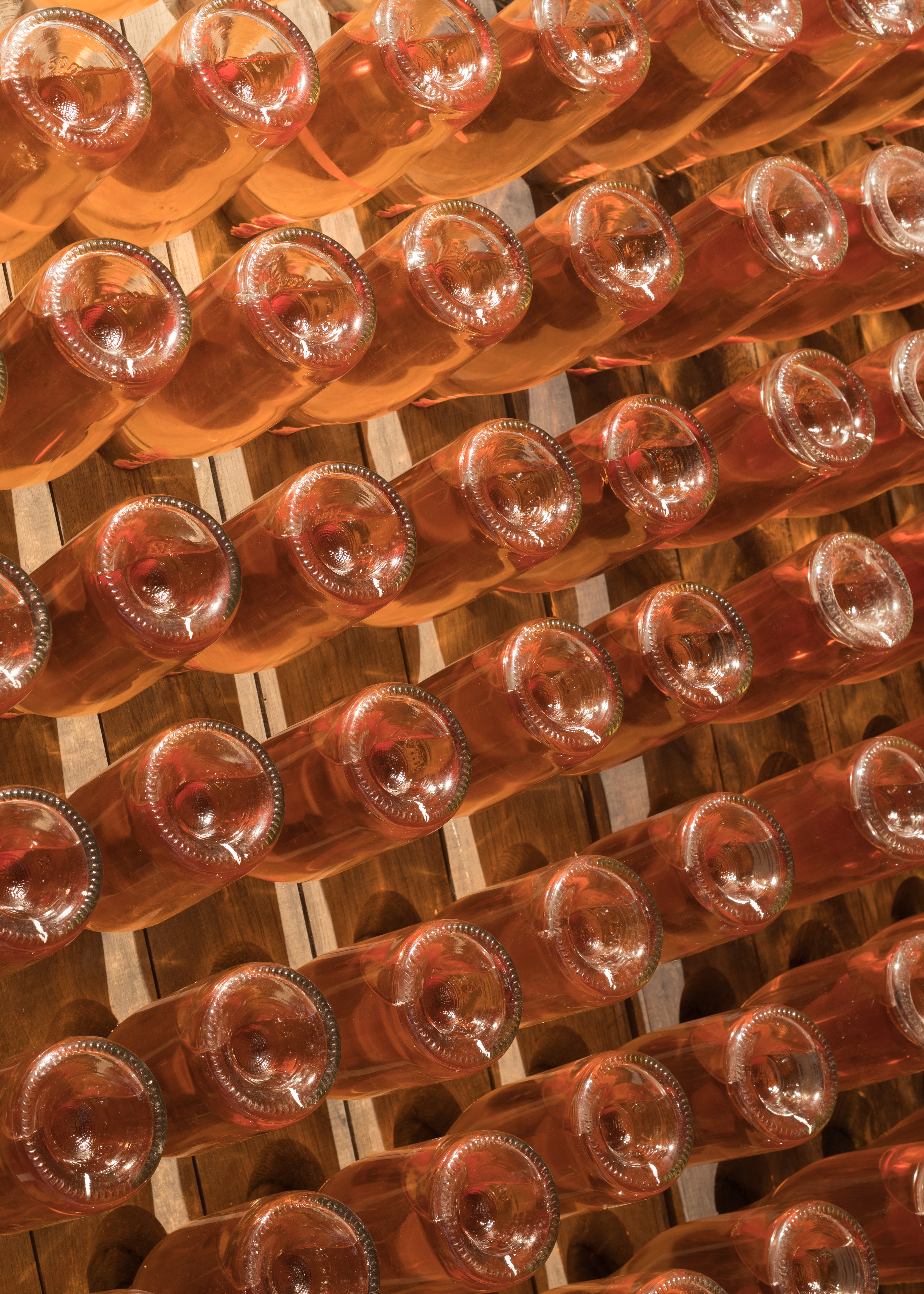 Rosé champagne bottles at the cellar of Schramsberg Vineyards, Napa Valley, California